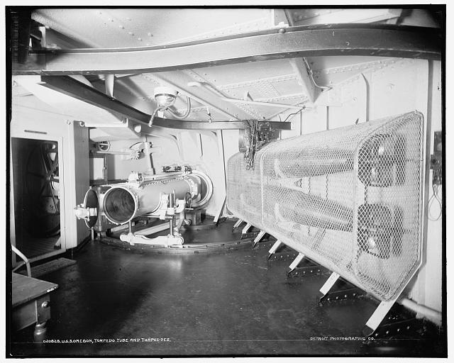 U.S.S. Oregon, torpedo tube and torpedoes between 1896 and 1901 (probably 1898 before Battle of Santiago)